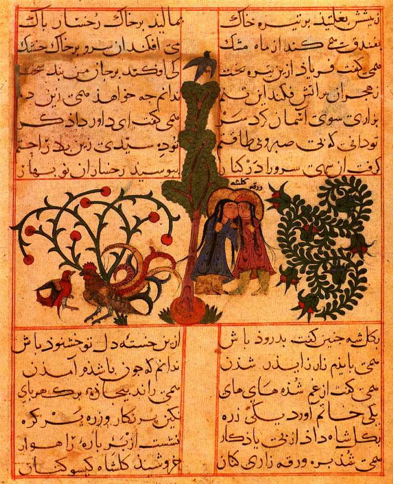 Varka and Gulshah- Image taken from a scientific book